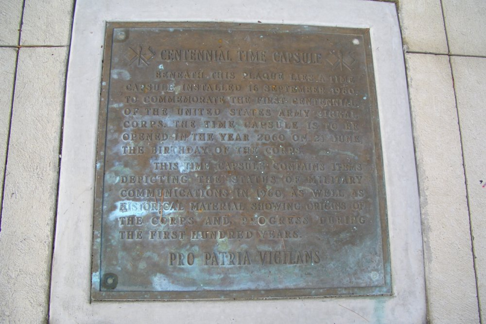 All rights released. U.S. Army Signal Corps Centennial Time Capsule at Ft. Monmouth, NJ